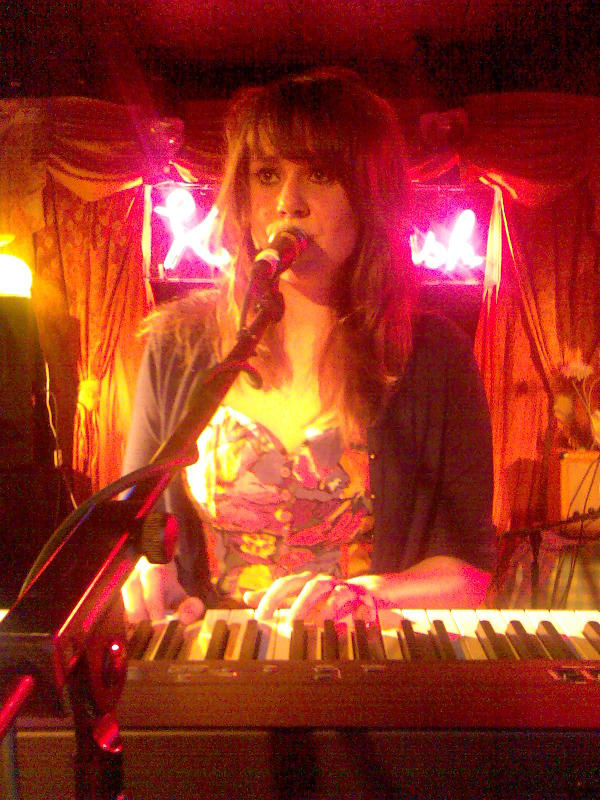 Kate Nash, performing at Glasgow King Tut's